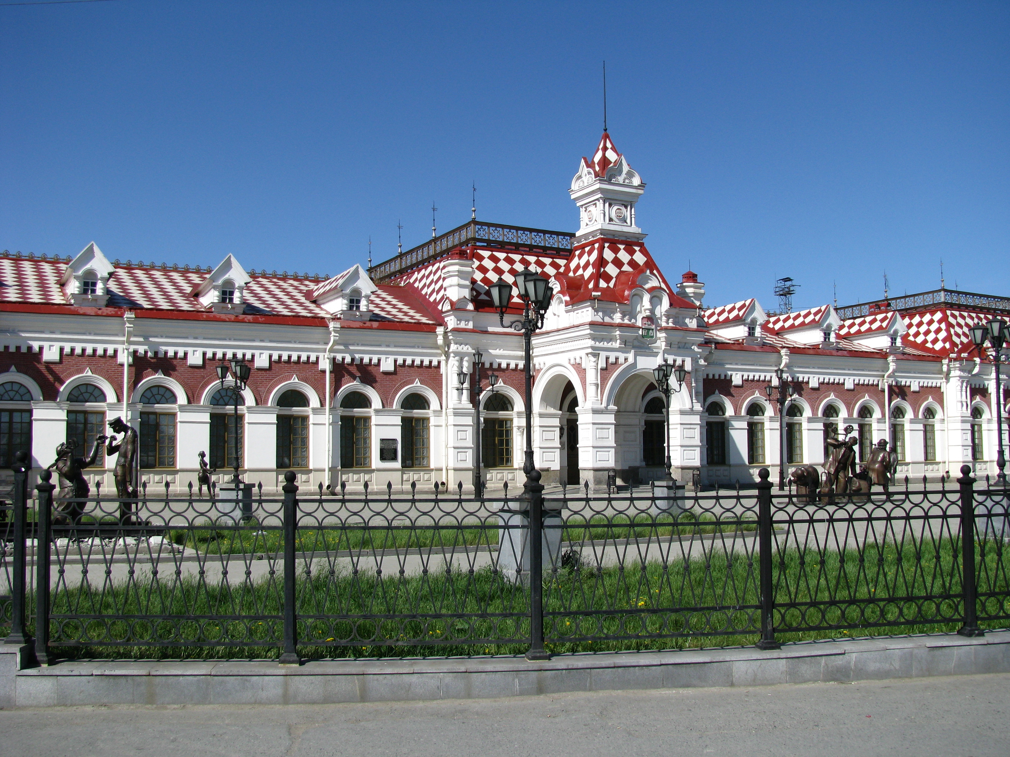 Sverdlovsk Railway Museum in Yekaterinburg. Located in the former building of Yekaterinburg railway station (built in 1878).